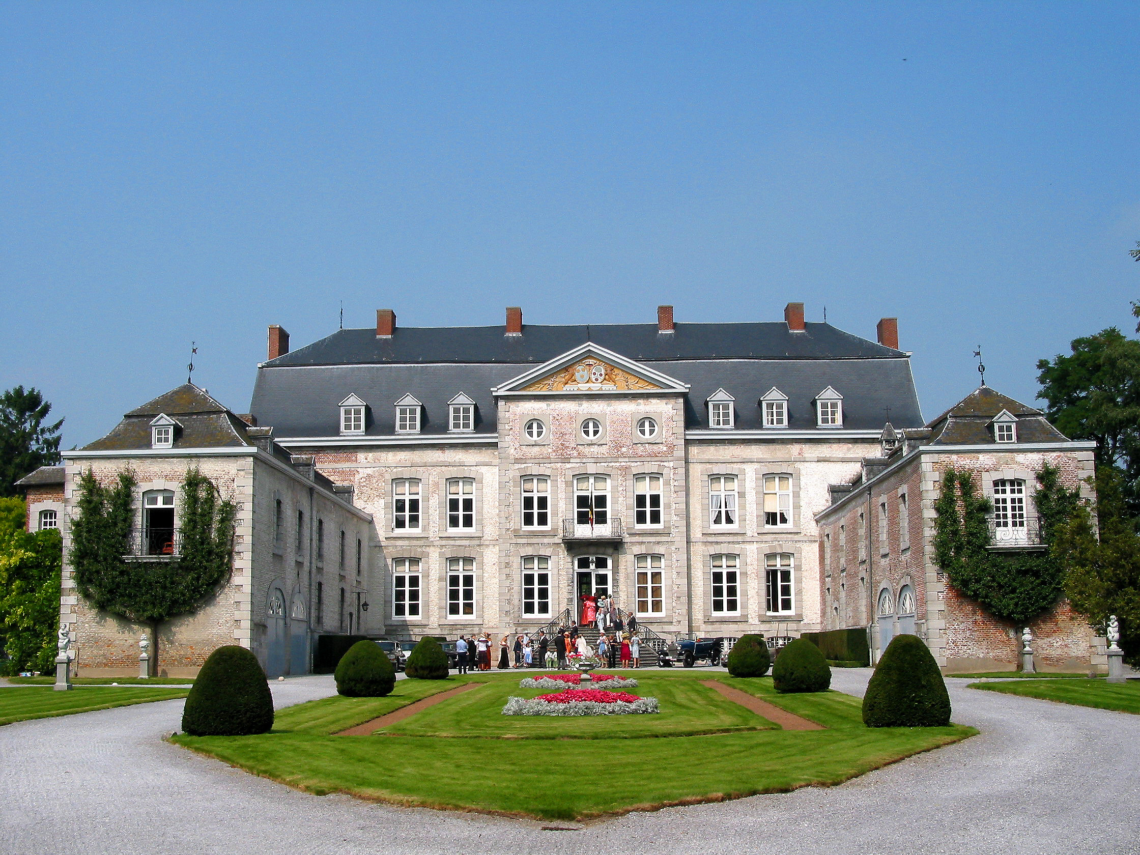 Les Waleffes (Belgium), castle of the de Potesta baron (XVIIIth century).